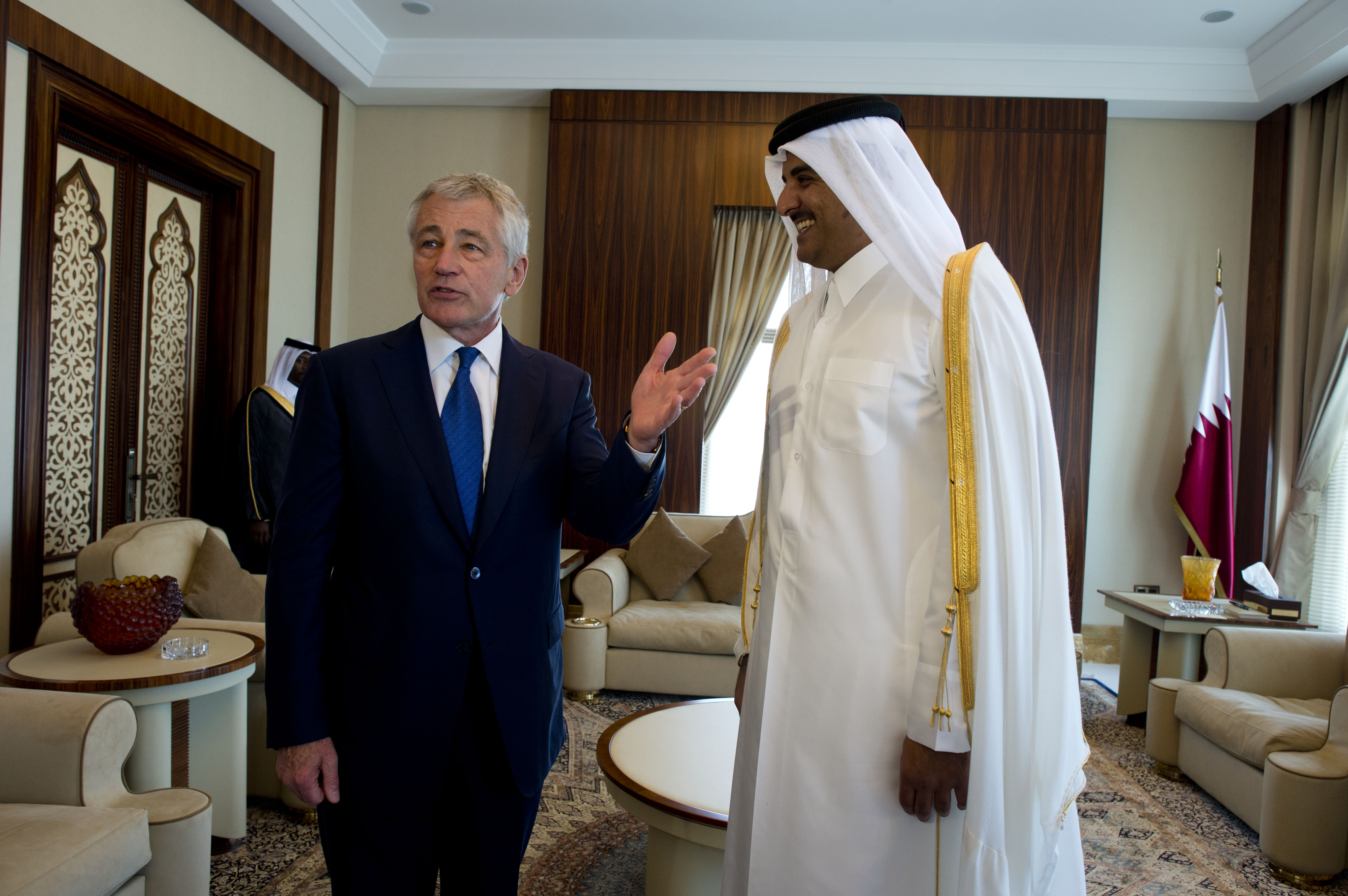 Secretary of Defense Chuck Hagel meets with Sheikh Tamim bin Hamad, Emir of Qatar in Doha, Qatar on December 10, 2013. Hagel met with the Emir to discuss issues of mutual importance. Photo by Erin A. Kirk-Cuomo (Released)